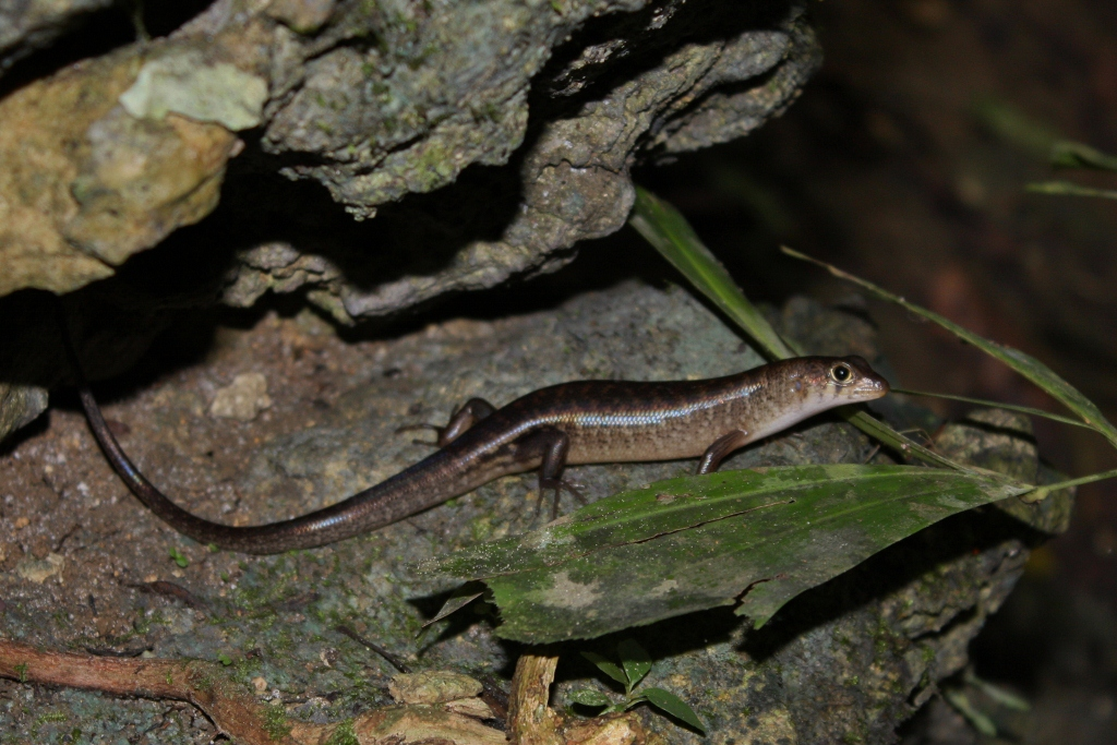 Found in the 'man-made forest' on the island of Bohol. I think this is the correct id, but please let me know if you think differently.